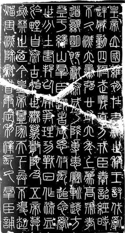 Li Si Yishan Stele Copy